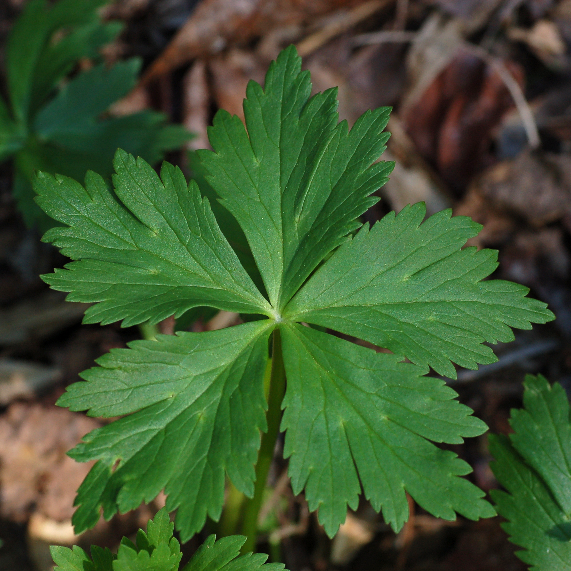 Photograph of a leaf of the Globefloweren (Trollius laxus en ) plant. Photo taken at the Mt. Cuba Center where it was identified.